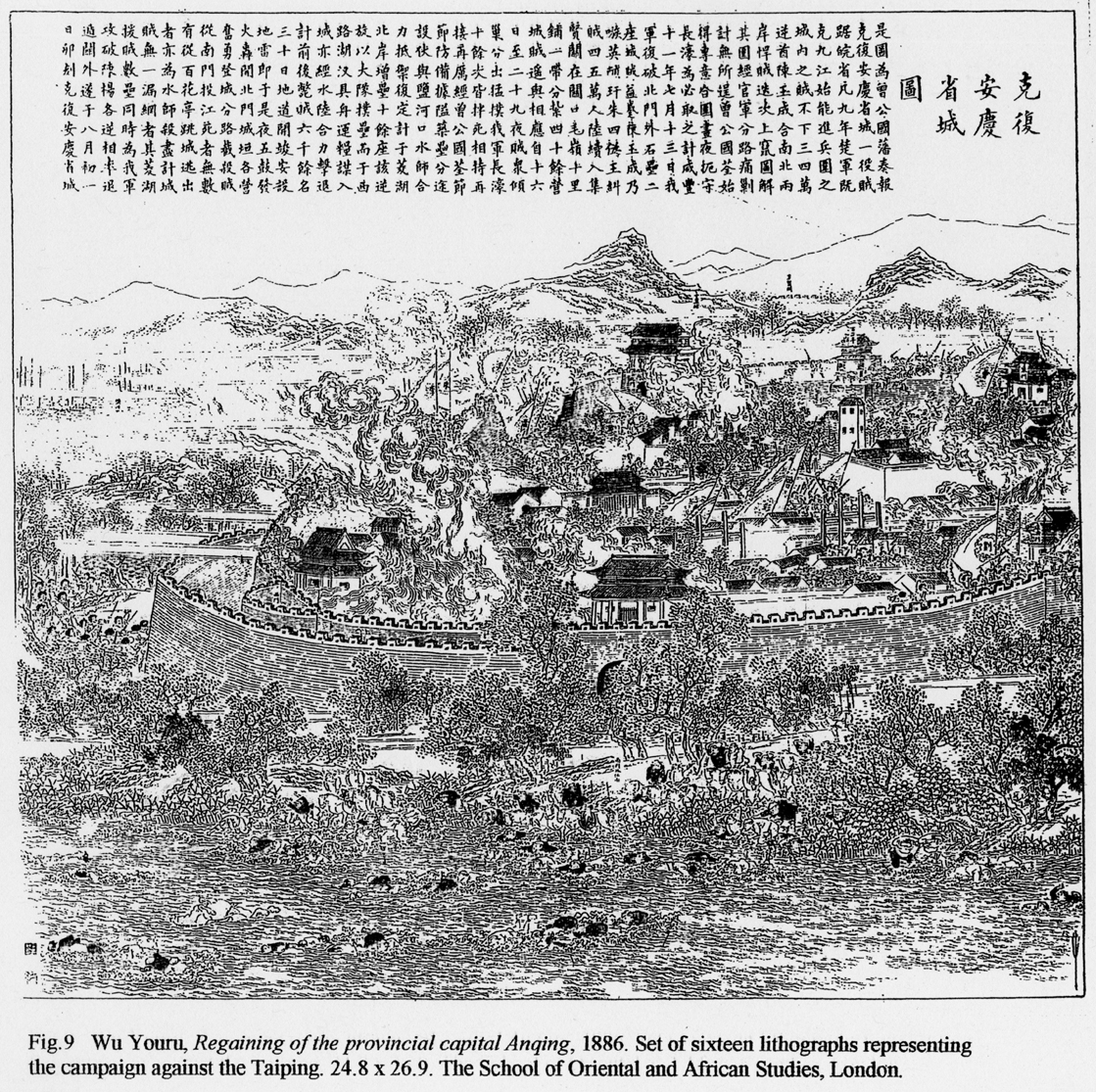 A scene of the Taiping Rebellion, 1850-1864